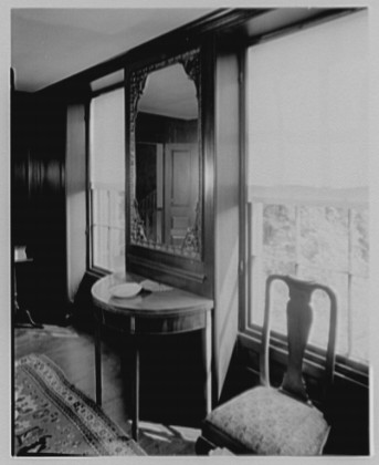 John Adams, residence in Quincy, Massachusetts. Mahogany room, Abigail Adams table